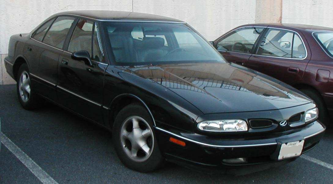 Oldsmobile LSS photographed in USA